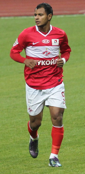 Ariclenes da Silva Ferreira